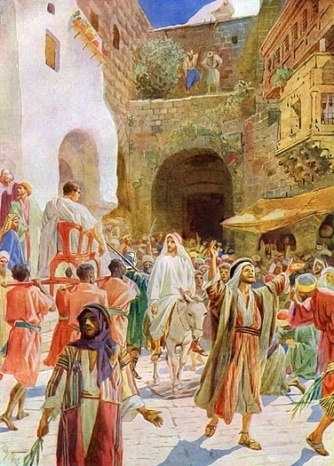 The Life of Jesus by William Hole